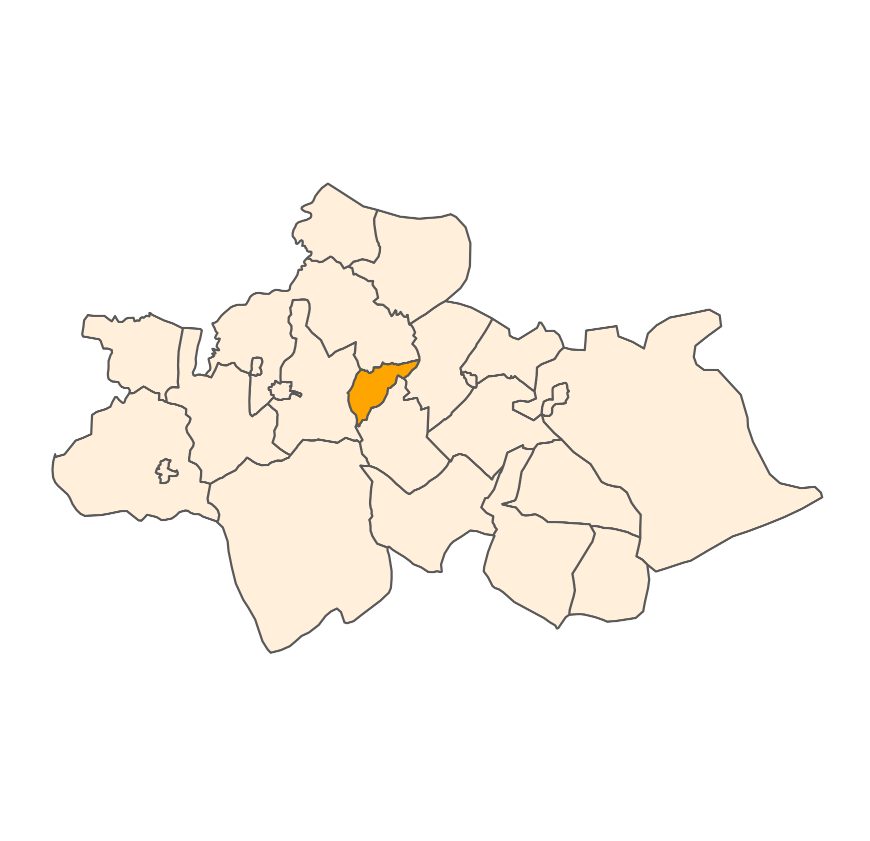 Commune (Orange), Sefrou Province (Antique White)